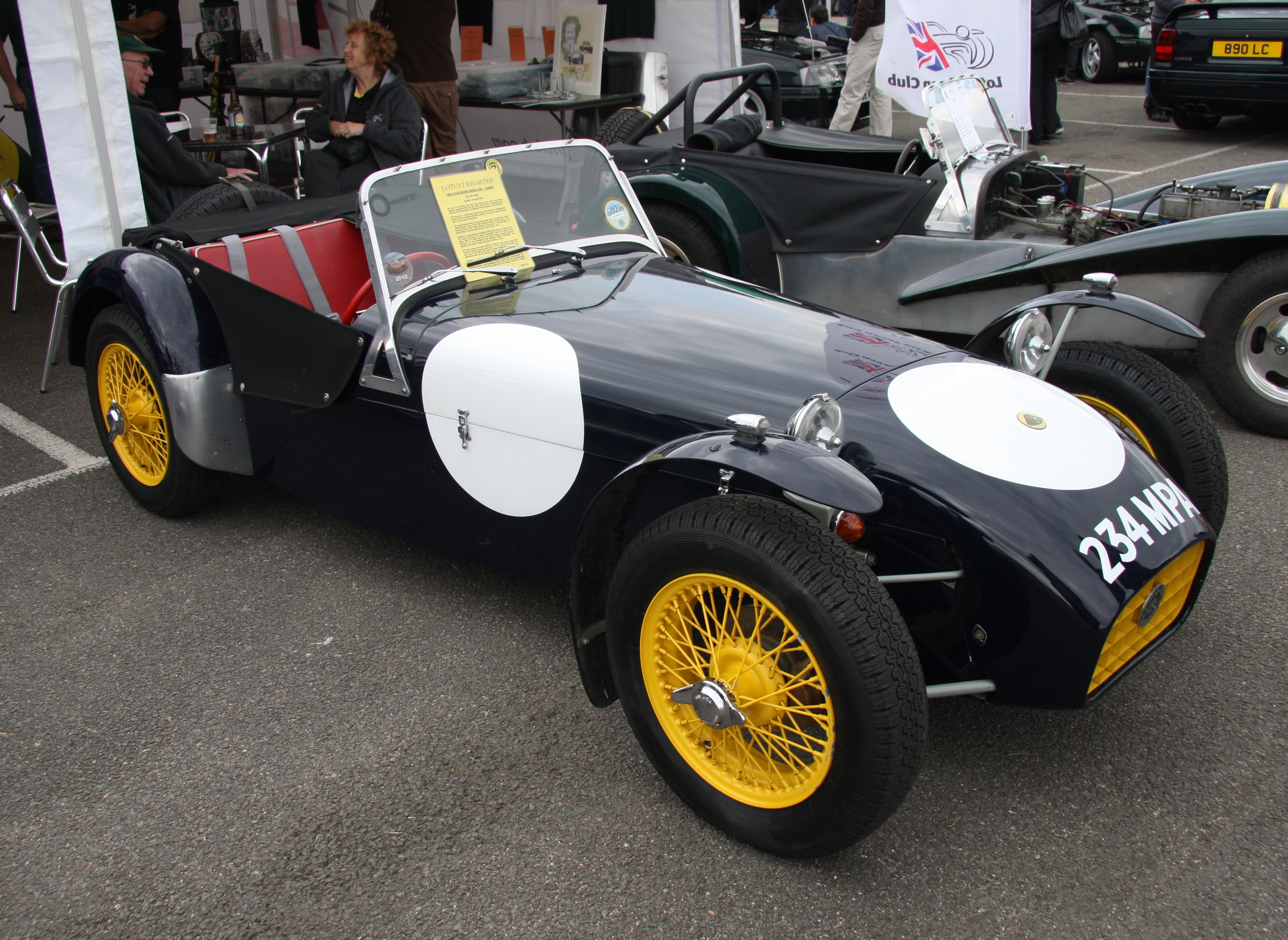 Lotus 7 Series 1 at Lotus 60th Celebration